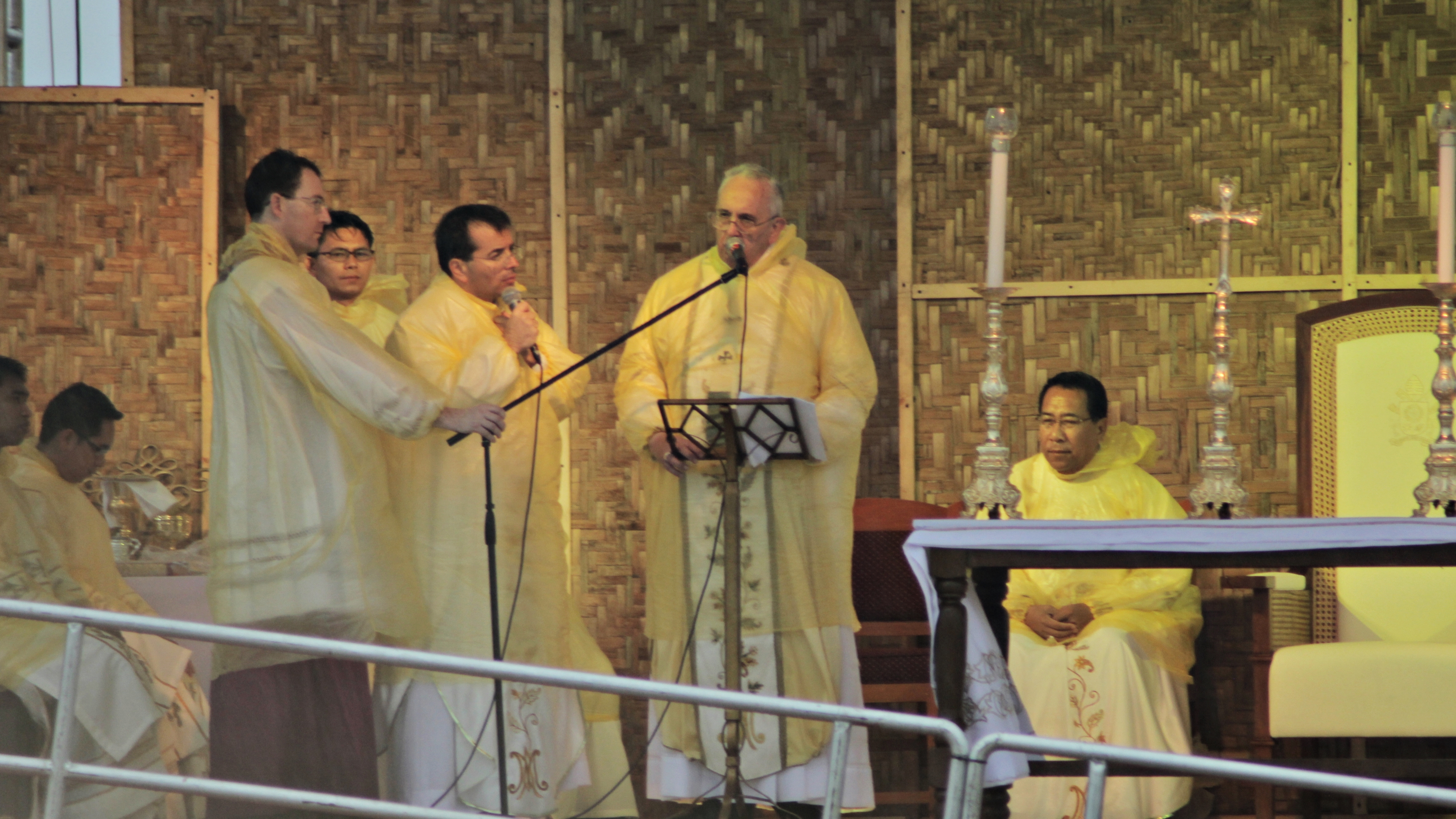 Pope Francis leading a Holy Mass at the Tacloban Airport